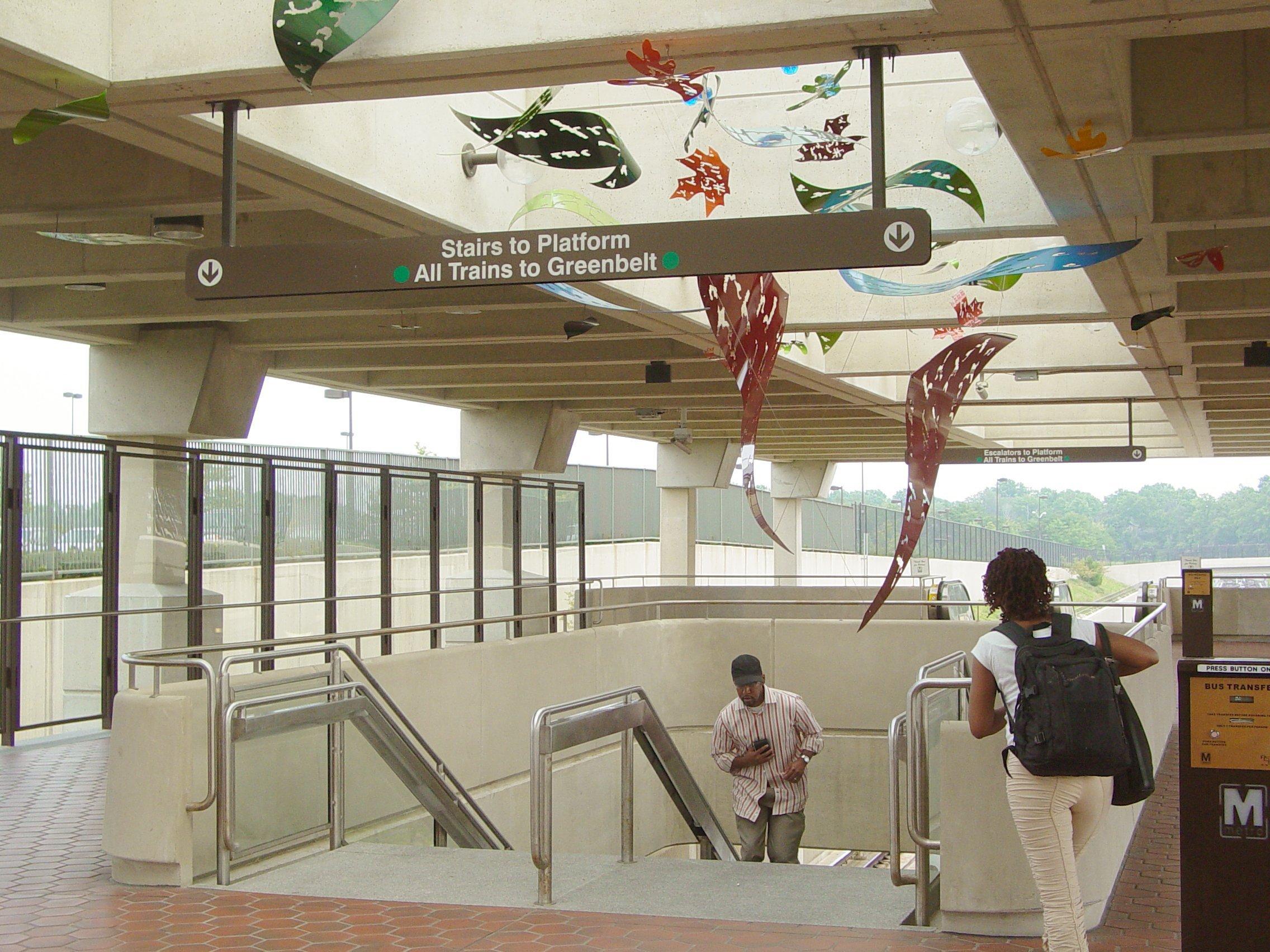 Branch Avenue station, Washington Metro. Mounted over the stairway is the sculpture, "Departure," by Clark Wiegman.